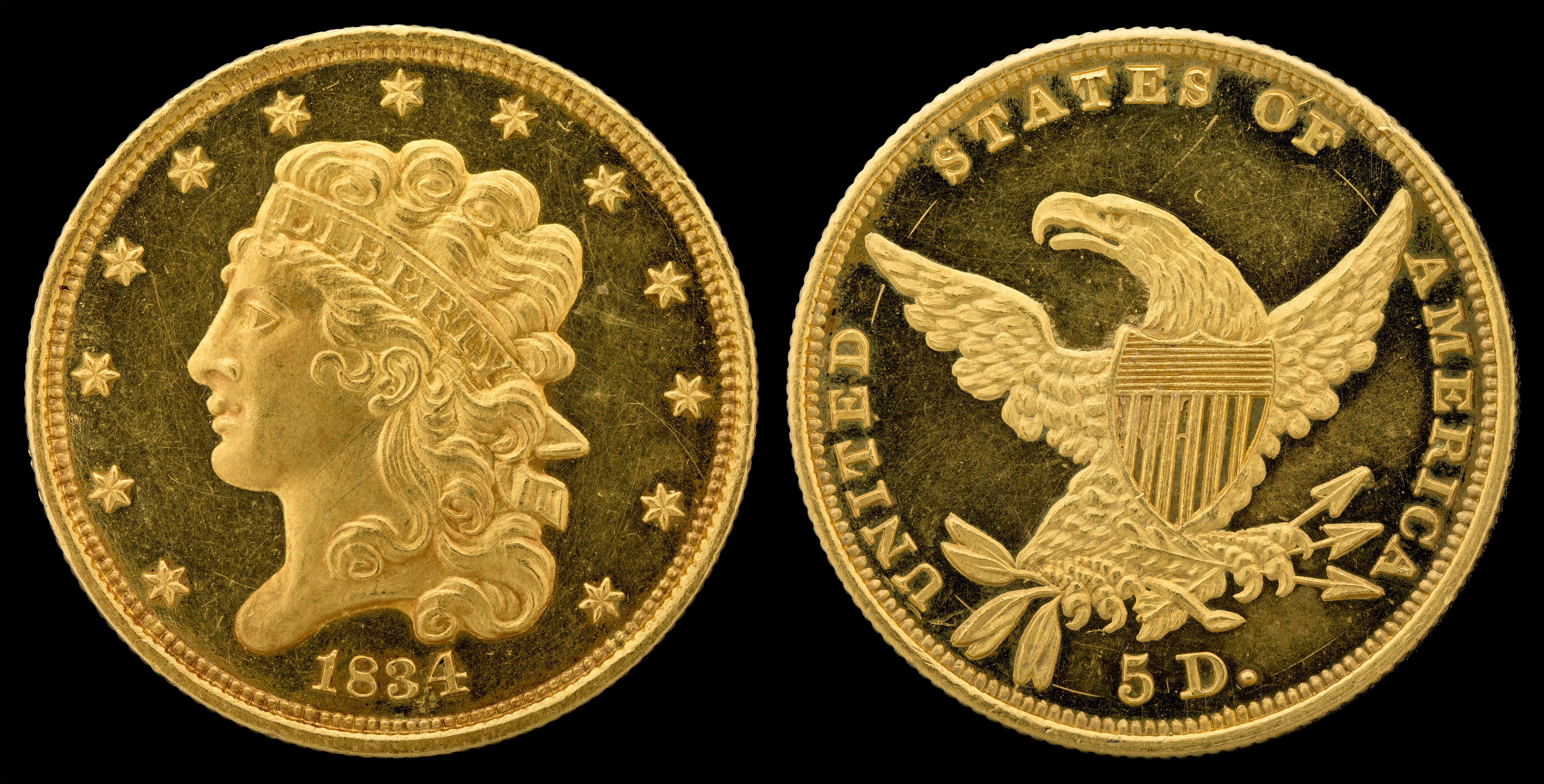 1834 G$5 Classic Head Gold (fineness 0.8990), 22.5mm, 8.36g, designed by William Kneass JN2015-6740-41